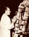 Pandit Ravi Shankar at the Department of Instrumental Music, Rabindra Bharati University.